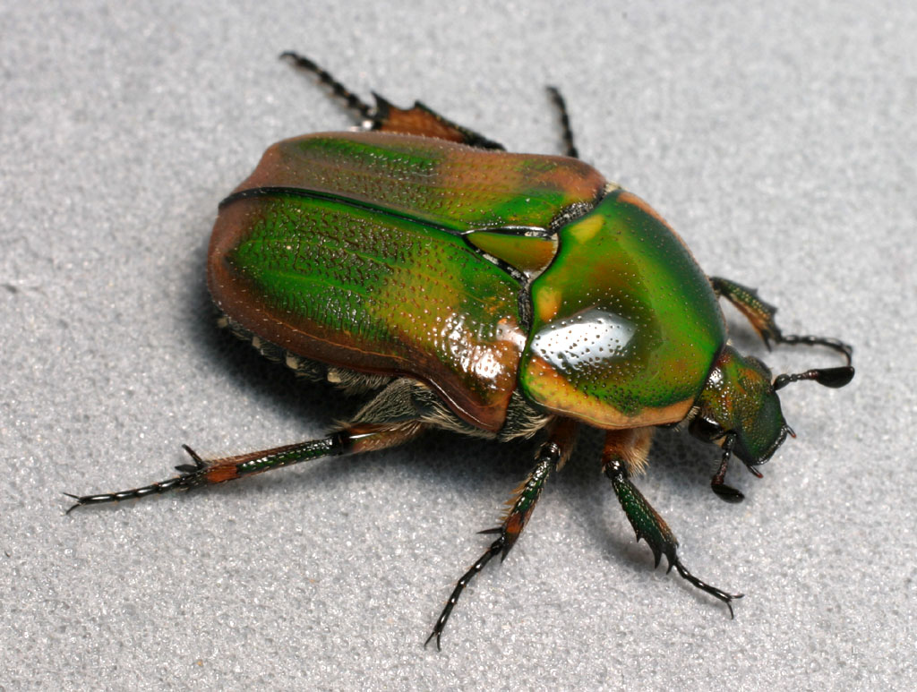 Emerald Euphoria, Euphoria fulgida. Location: Durham County, North Carolina, United States. Identification references: BugGuide; Dillon, Elizabeth S., and Dillon, Lawrence (1961). A Manual of Common Beetles of Eastern North America. Evanston, Illinois: Row, Peterson, and Company.